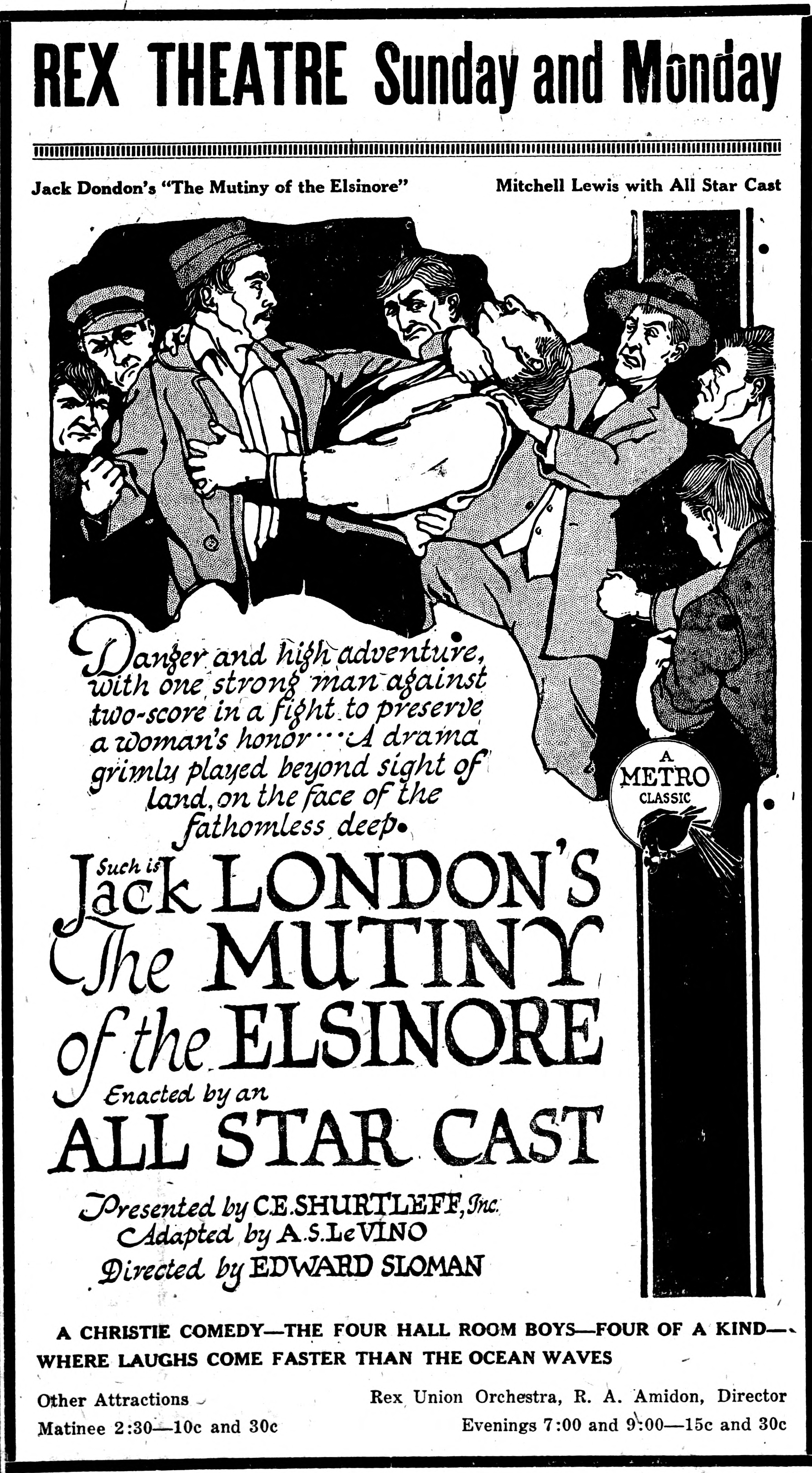 The Mutiny of the Elsinore is a 1920 American silent action film directed by Edward Sloman and starring Mitchell Lewis, Helen Ferguson and Noah Beery Jr. It is an adaptation of the Jack London novel The Mutiny of the Elsinore. This is from a newspaper advertisement.